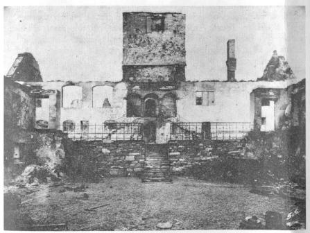 Ruins of Austråttborgen (en: The Manor of Austrått), in Ørland, Norway, after destroying fire November 29th 1916